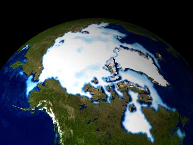 Arctic sea ice extent on January 1, 1990.